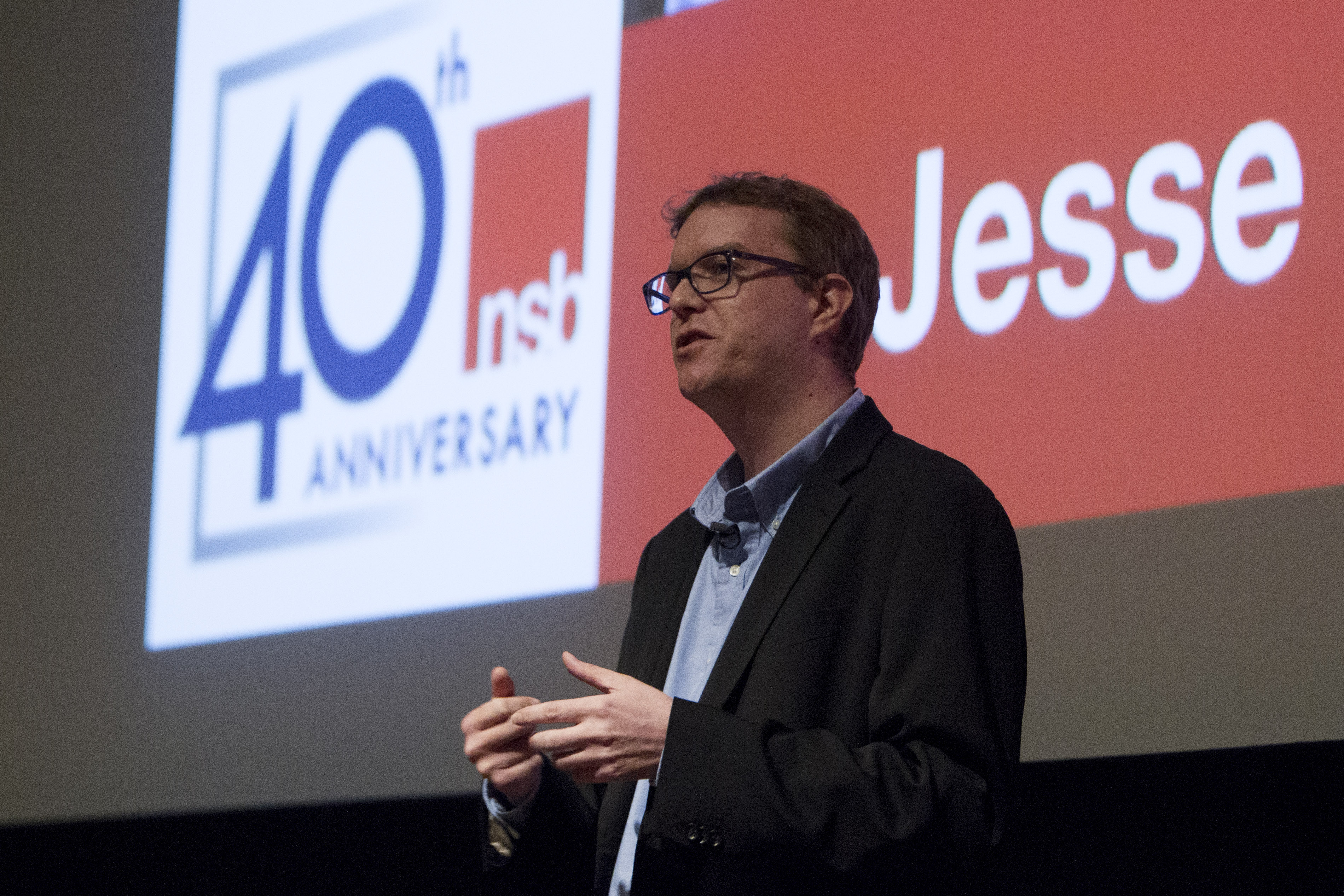 Jesse Hirsh speaking at National Speakers Bureau Engage